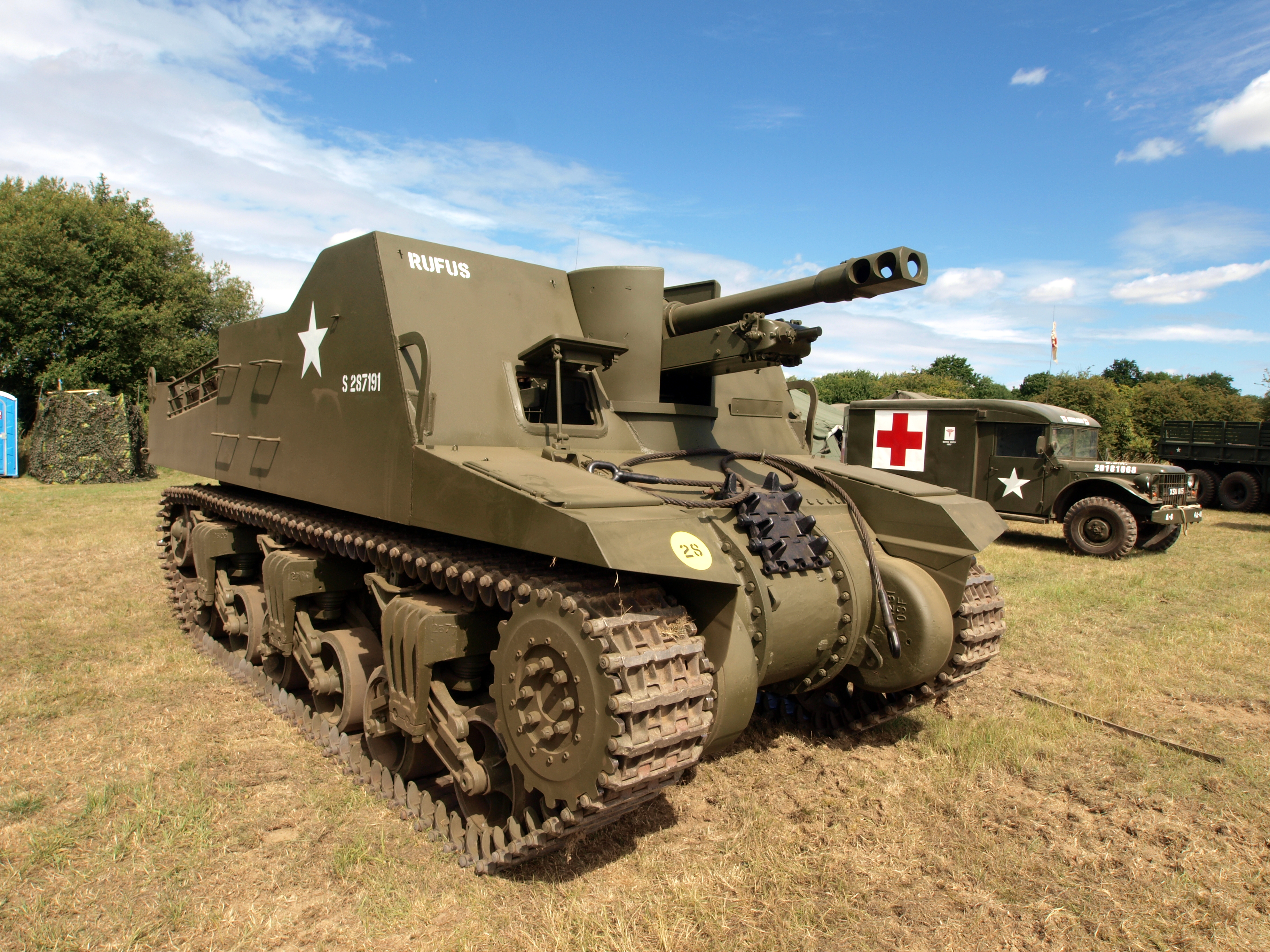 Sexton S 287191 'Rufus'